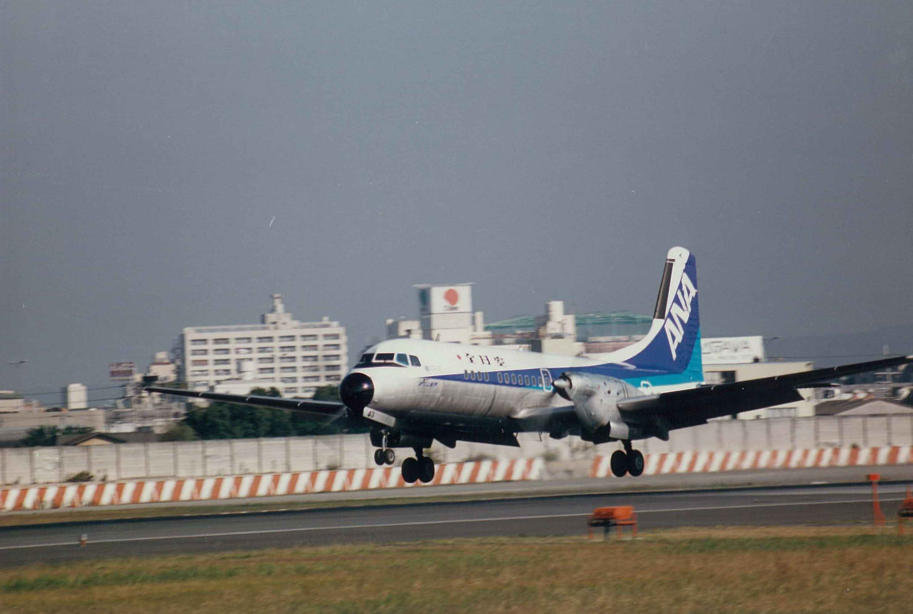 It is YS-11 which it photographed in Itami, Osaka Airport.